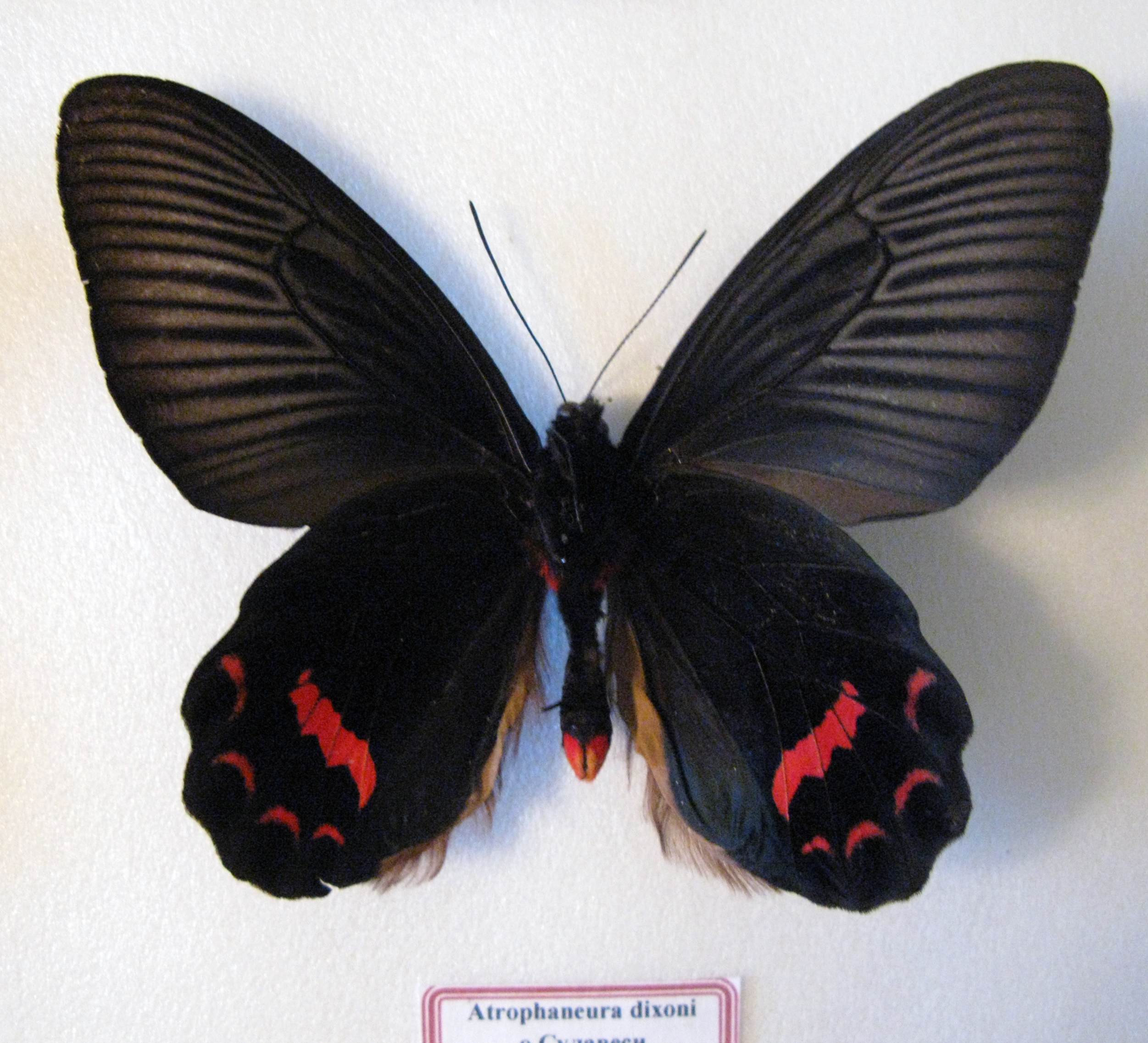 Atrophaneura dixoni (male verso)